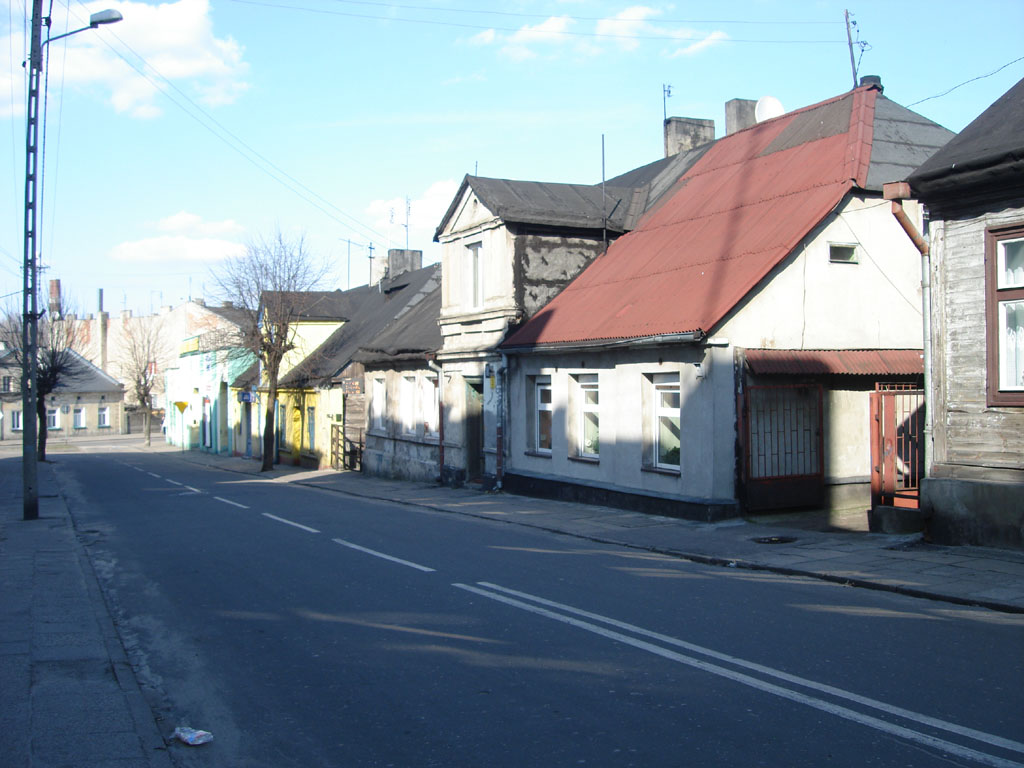 Weavers' houses in Zgierz, Poland